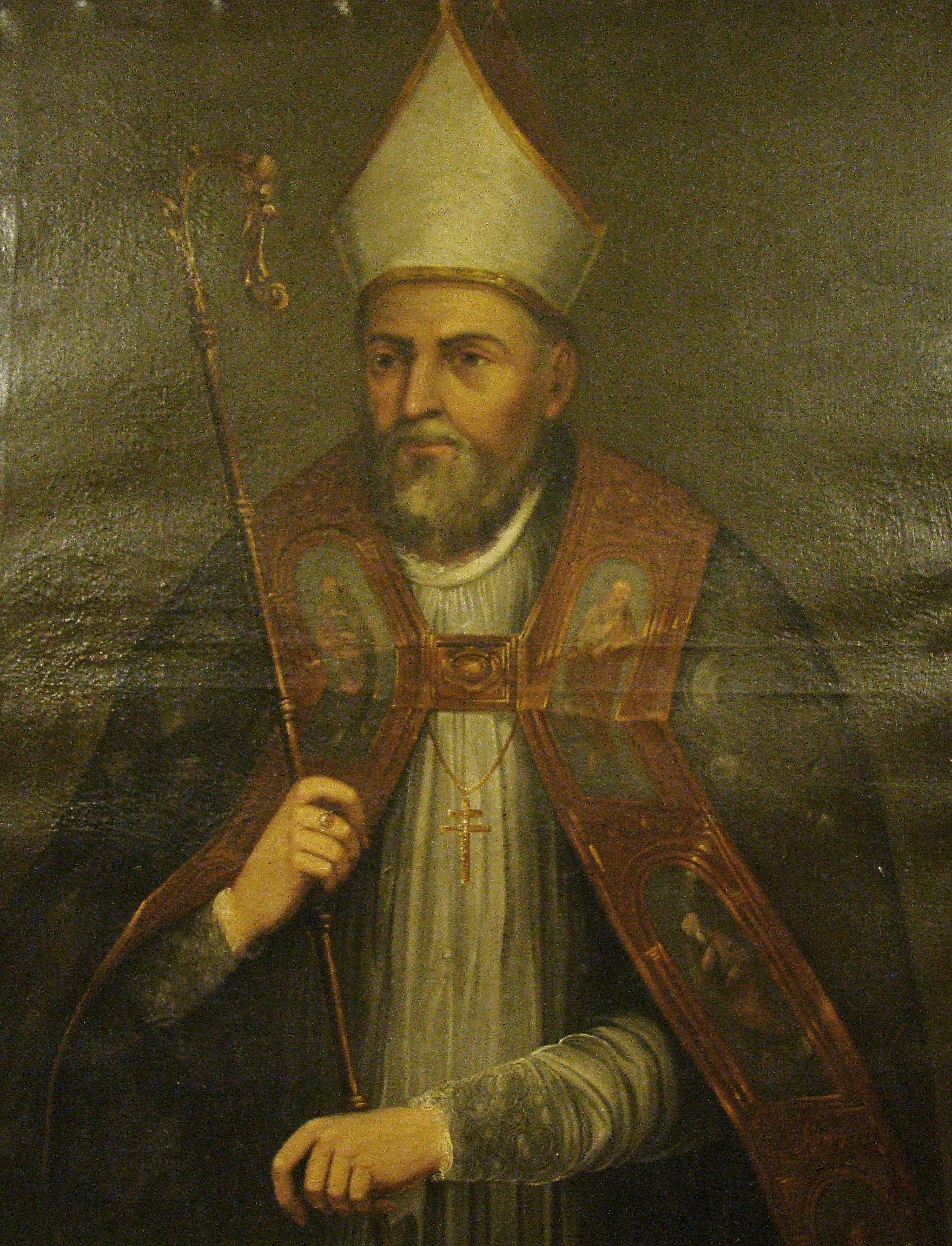 Saint Teopompo of Fregenal